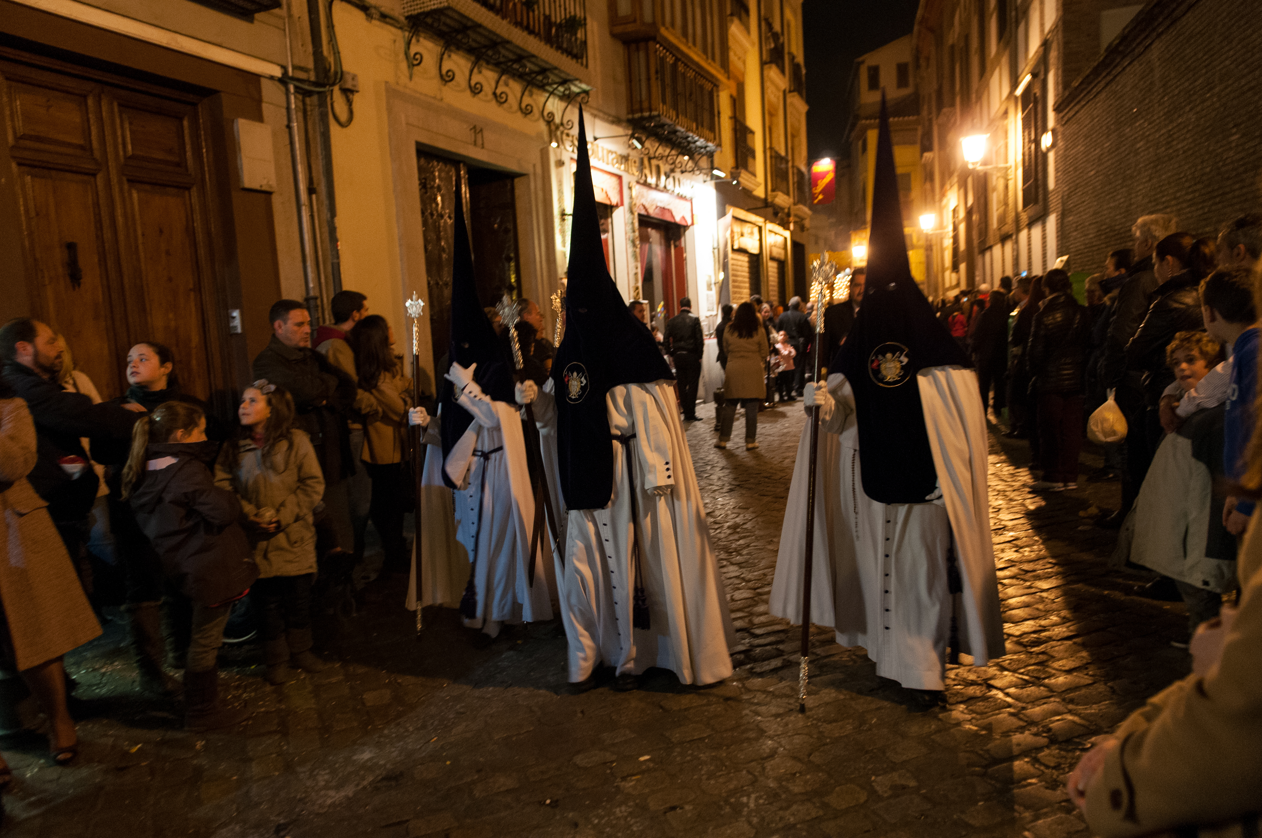 Spain is especially renowned for its Holy Week traditions or Semana Santa. Holy Week, the last week of Lent, which is the week immediately before Easter, sees its most glamorous celebrations in the region of Andalusia, particularly in Málaga, while those of Castile see the more sombre and solemn events, typified by Semana Santa at Zamora.This is a religious holiday. A common feature in Spain is the almost general usage of the nazareno or penitential robe for some of the participants in the processions. This garment consists in a tunic, a hood with conical tip (capirote) used to conceal the face of the wearer, and sometimes a cloak. The exact colors and forms of these robes depend on the particular procession. The robes were widely used in the medieval period for penitents, who could demonstrate their penance while still masking their identity. These nazarenos carry processional candles or rough-hewn wooden crosses, may walk the city streets barefoot, and, in some places may carry shackles and chains on their feet as penance. In some areas, sections of the participants wear dress freely inspired by the uniforms of the Roman Legion. Holy Week in Spain. (2012, April 7). In Wikipedia, The Free Encyclopedia. Retrieved 21:20, April 12, 2012, from